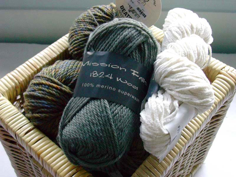 A basket of yarn